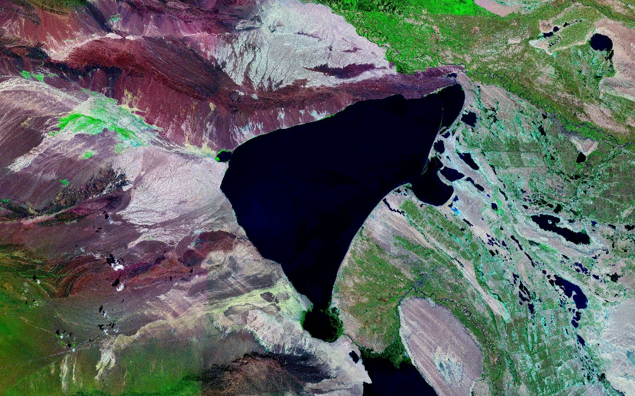 Satellite Image of Lake Ulungur, Xinjiang, China